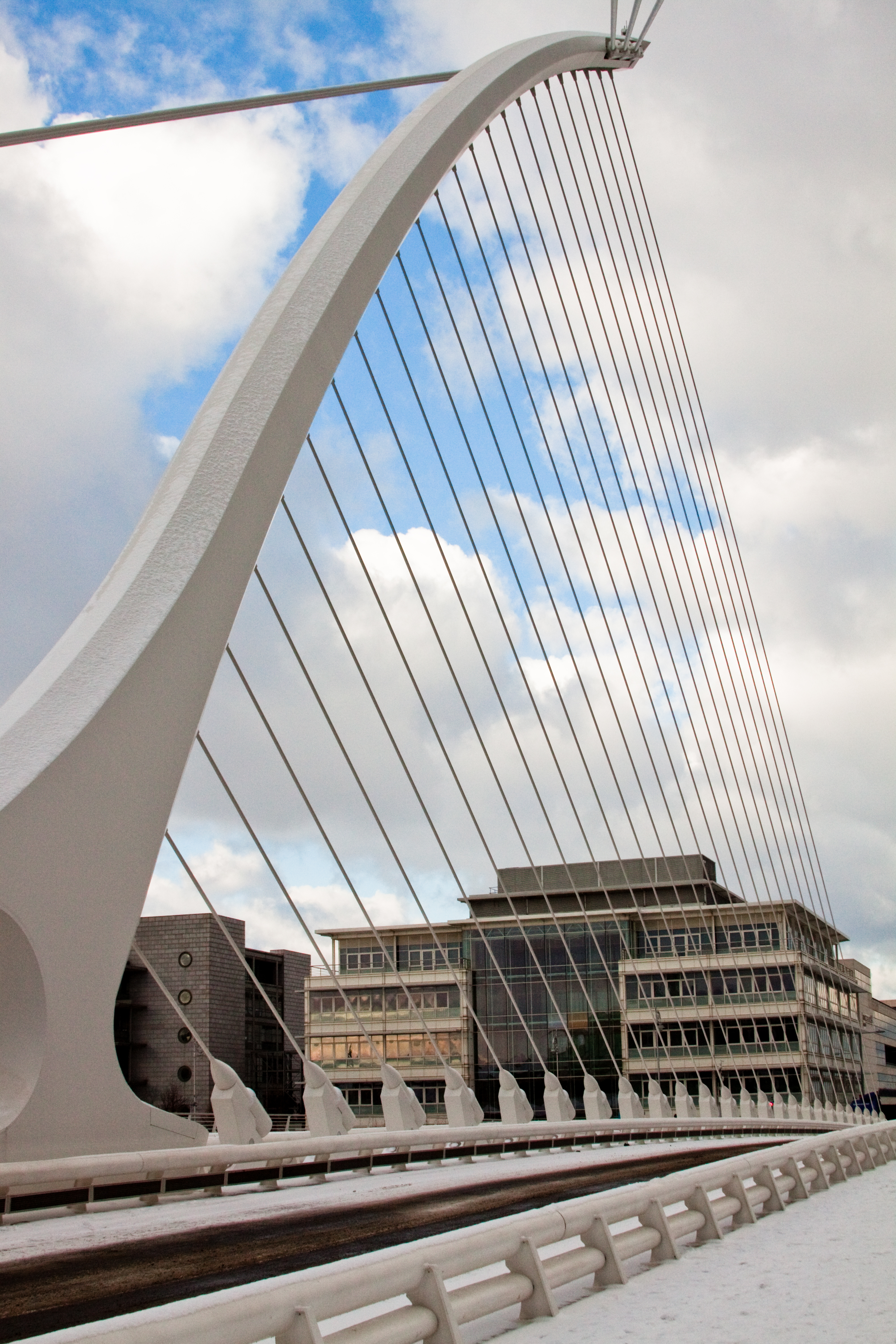 This is apicture of the recently opened Samuel Becket Bridge in Dublin, I thought it would be great to have another image where the bridge does not seem to be under construction.